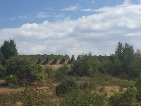 Vineyards of Skovin Winery in Markova Sushica